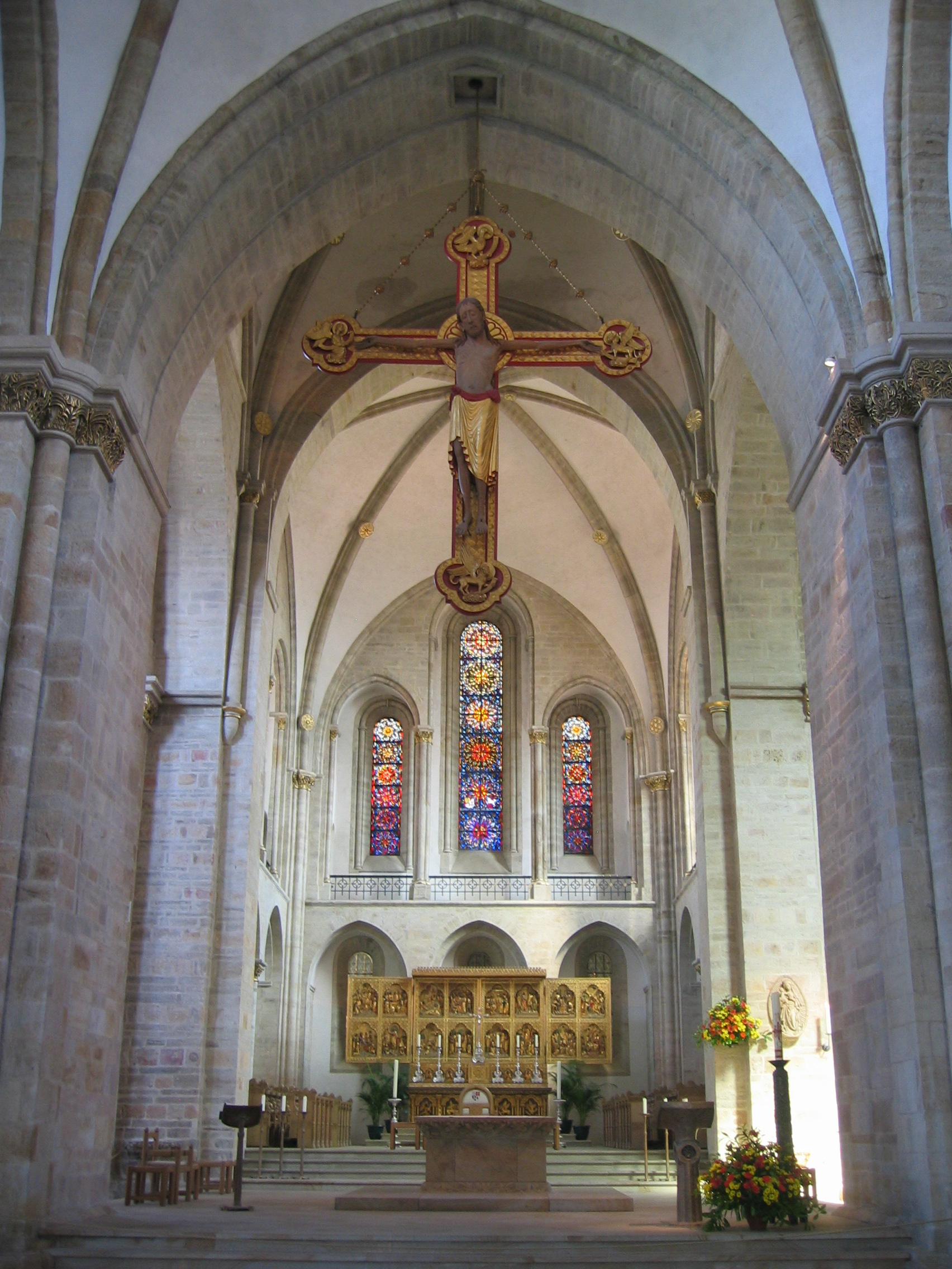 The chancel of the cathedral in Osnabrück, Germany